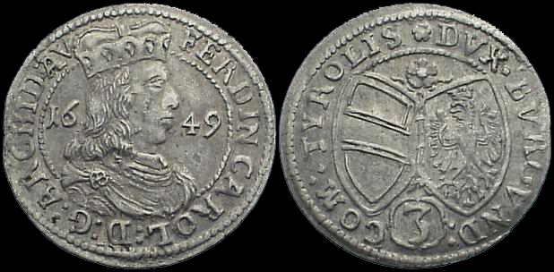 Silver coin, known as a groschen, of Ferdinand III, dated 1649. Reads: (o) FERDIN[ANDVS] CAROL[VS] D[EI] G[RATIA] ARCHID[VX] AV[STRIAE] (r) DVX BVRGVND[IAE] COM[ES] TYROLIS. In